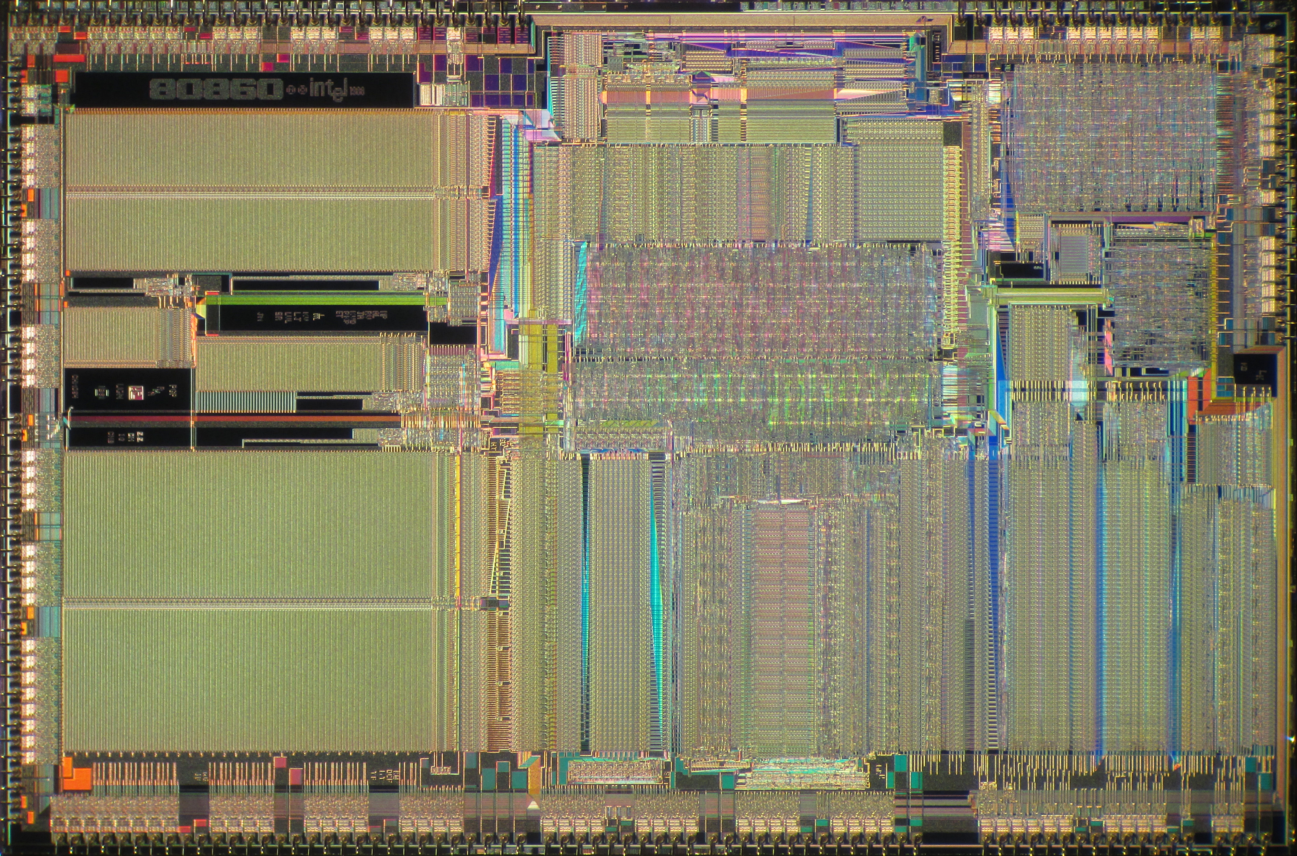 Die shot of Intel 80860XR microprocessor (A80860XR-40, SX438).